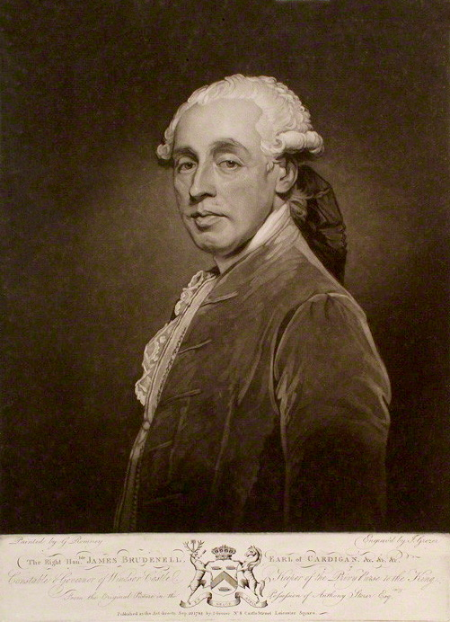 James Brudenell, 5th Earl of Cardigan (1715-1811)